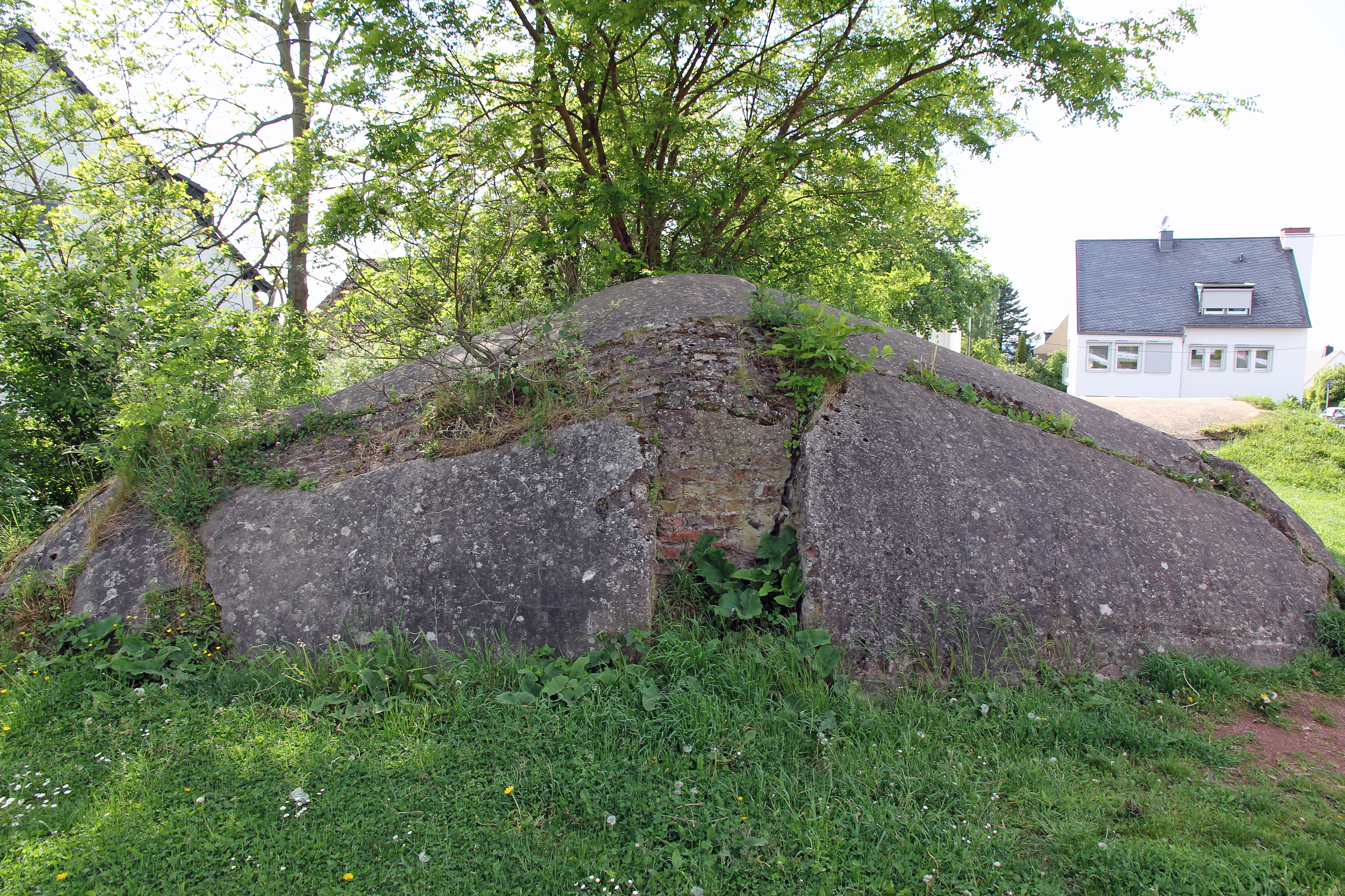 Sconce Arzheim in Koblenz